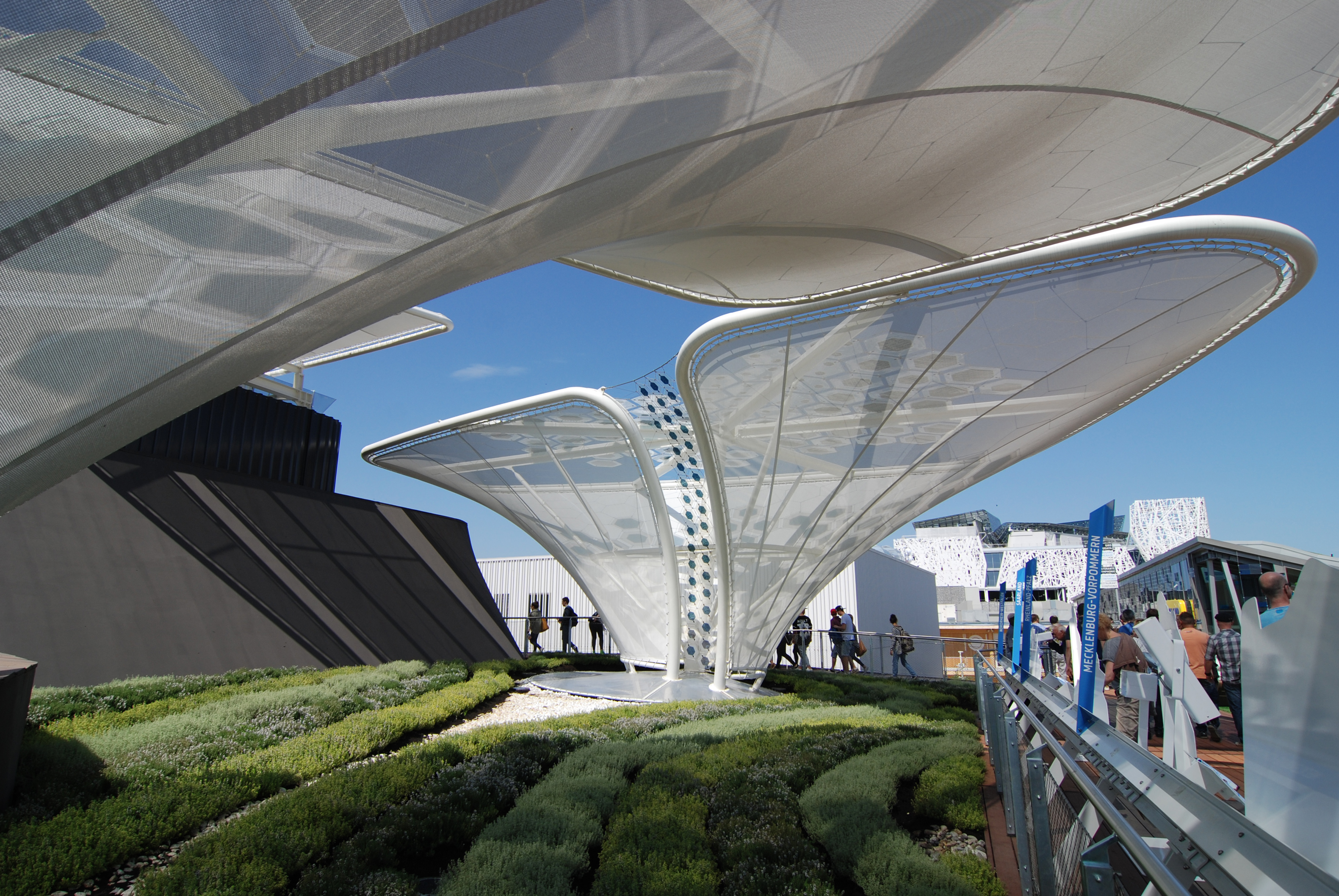 PVC Membrane Trees with integrated photovoltaic cells.